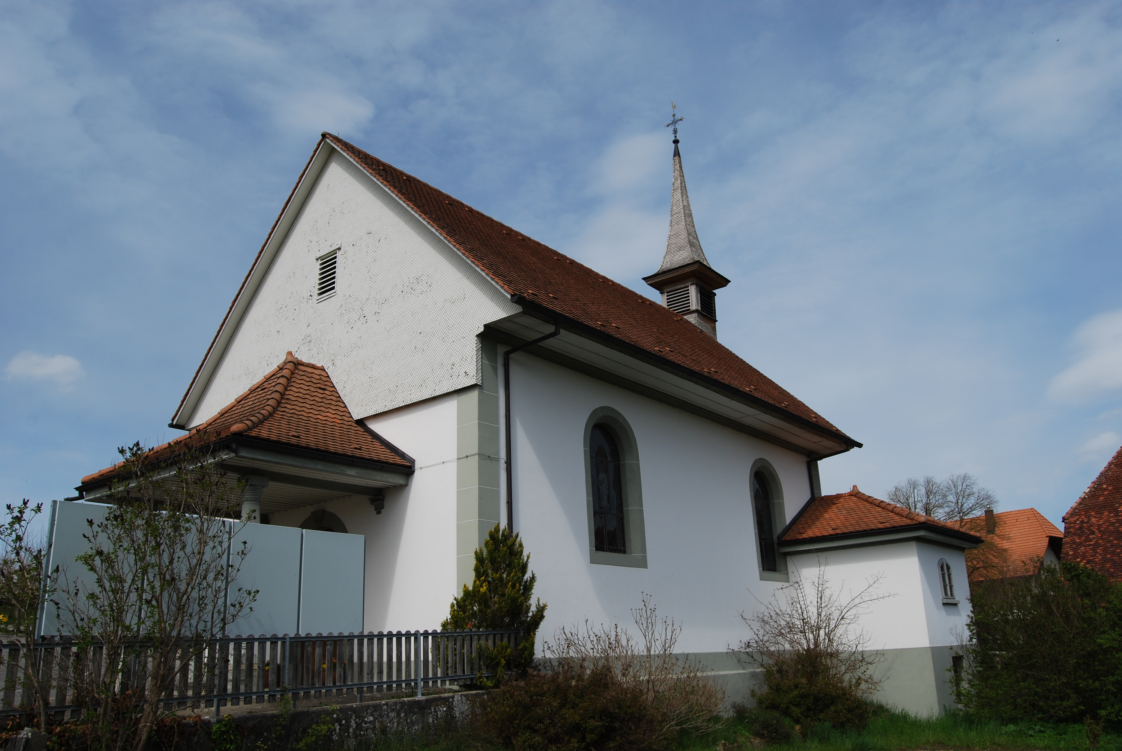 Chapel St. Urban at Liebistorf, municipality Gurmels, canton of Fribourg, Switzerland